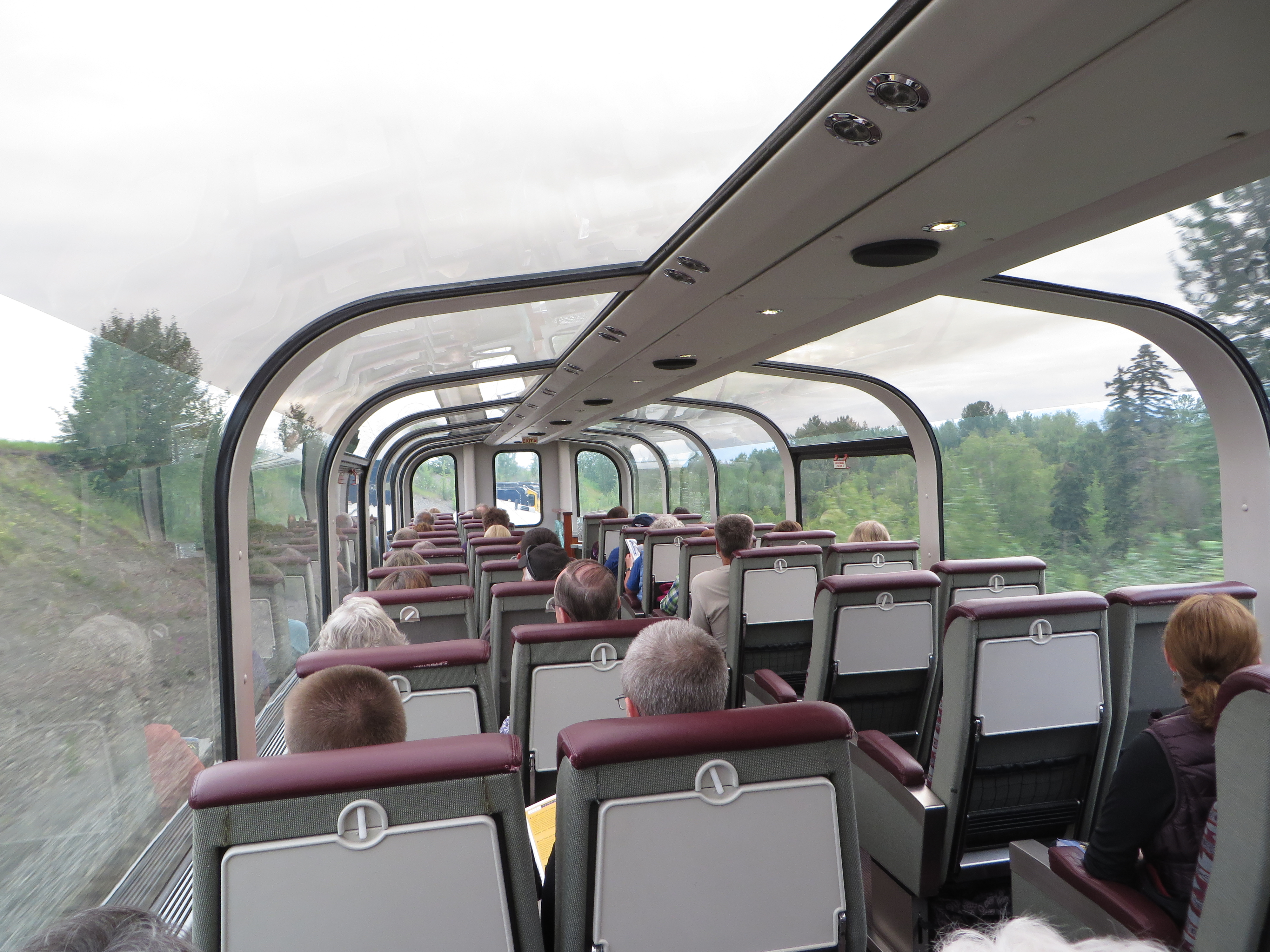 View of the second floor dome of the Alaska Railroad GoldStar Dome Service, shortly after departing from Anchorage on our way to Fairbanks on August 1st, 2014. This special carriage is a great way to see Denali Park as the train slowly makes its way through the Alaskan wilderness, you can even go outside on an open platform to take photos in the open. The train ride from Anchorage to Fairbanks took 12 hours, the entire day, but was rich with amazing scenery of wildlife, glacial rivers, mountains and valleys.